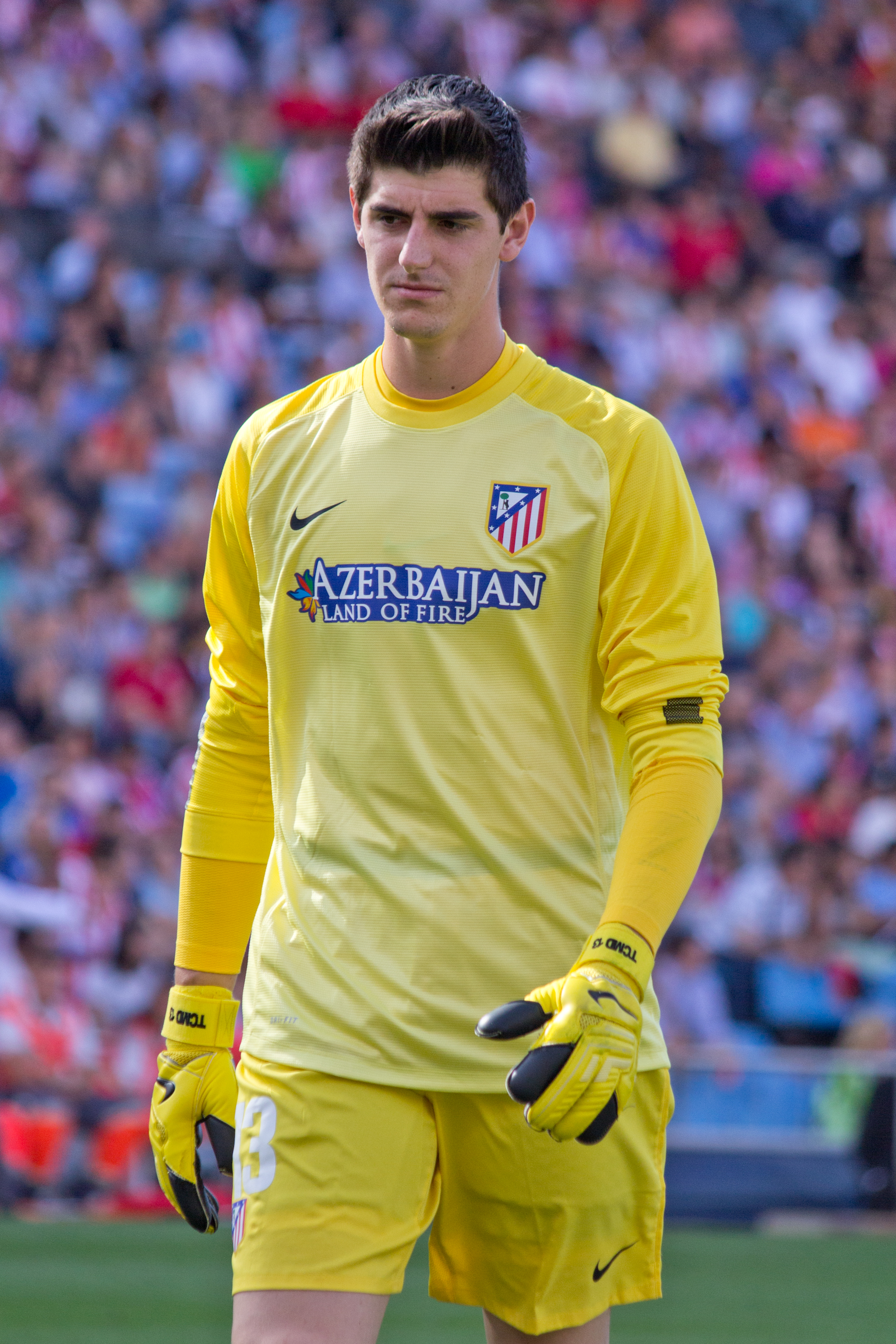 Thibaut Courtois, footballer of Atlético de Madrid.